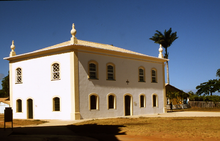 old city Peuto Seurgo